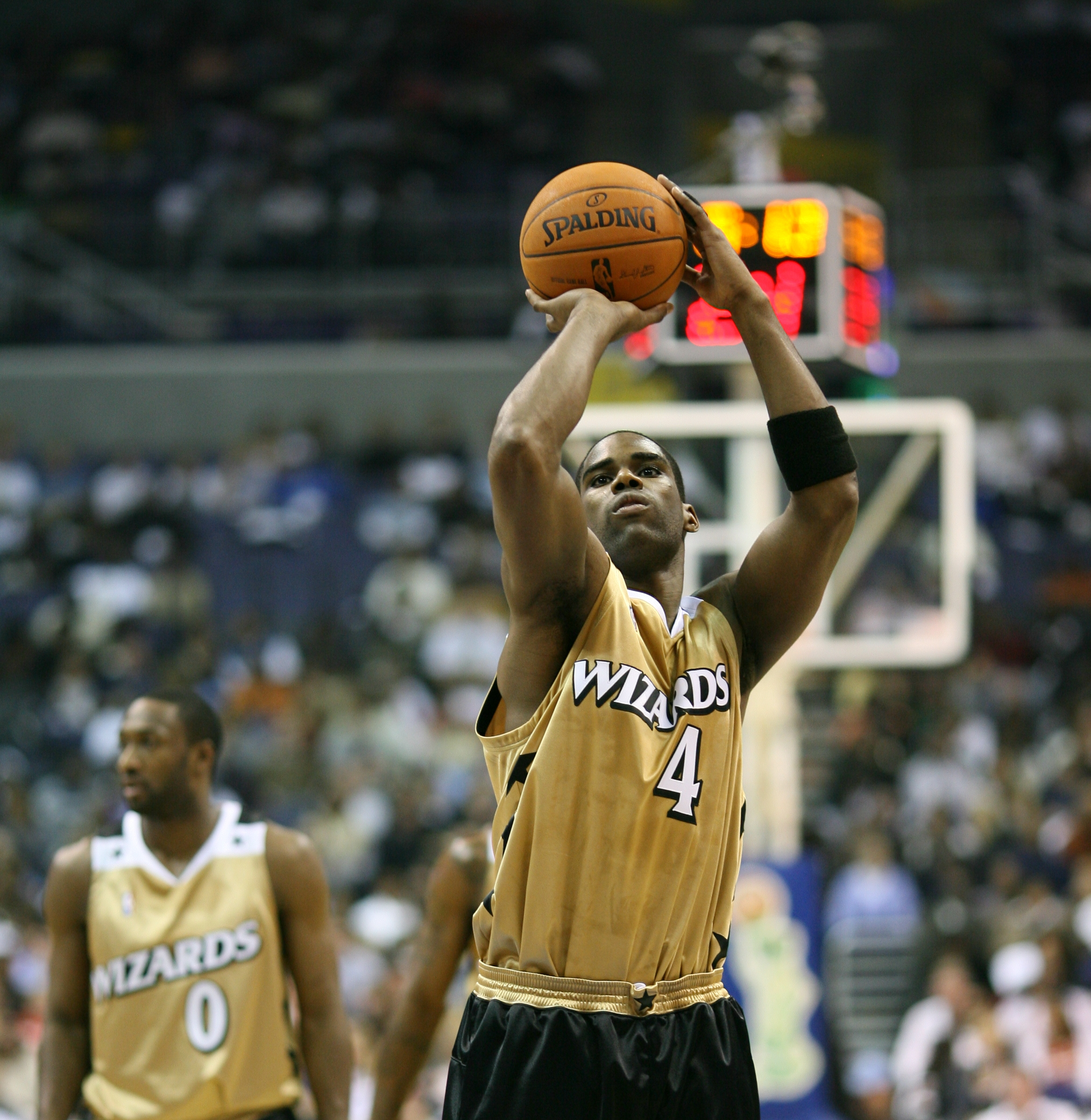 Antawn Jamison playing with the Washington Wizards